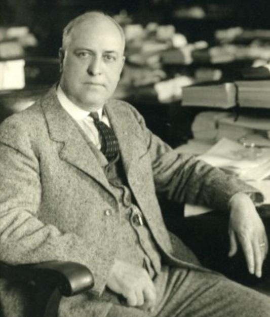 Frank P. Bohn (Michigan Congressman)